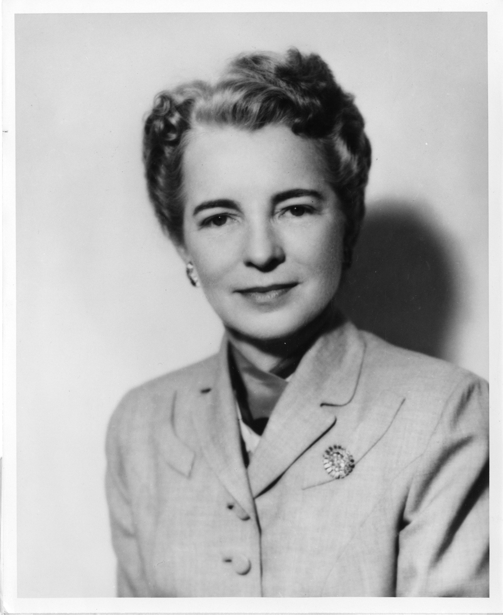 Subject: Leone, Lucile Petry 1902-1999 United States Public Health Service Office of the Surgeon General United States Cadet Nurse Corps Type: Black-and-White Prints Date: Nov-55 Topic: Nursing Local number: SIA Acc. 90-105 [SIA-SIA2008-5239] Summary: This photograph of Lucile Petry Leone (1902-1999) was distributed when she retired in 1966 as Assistant Surgeon General and Chief Nurse Officer of the U.S. Public Health Service, where she had worked since 1941. Leone was the founding director of the U.S. Cadet Nurse Corps, which recruited and trained nurses during World War II. Cite as: Acc. 90-105 - Science Service, Records, 1920s-1970s, Smithsonian Institution Archives Persistent URL:Link to data base record Repository:Smithsonian Institution Archives View more collections from the Smithsonian Institution.